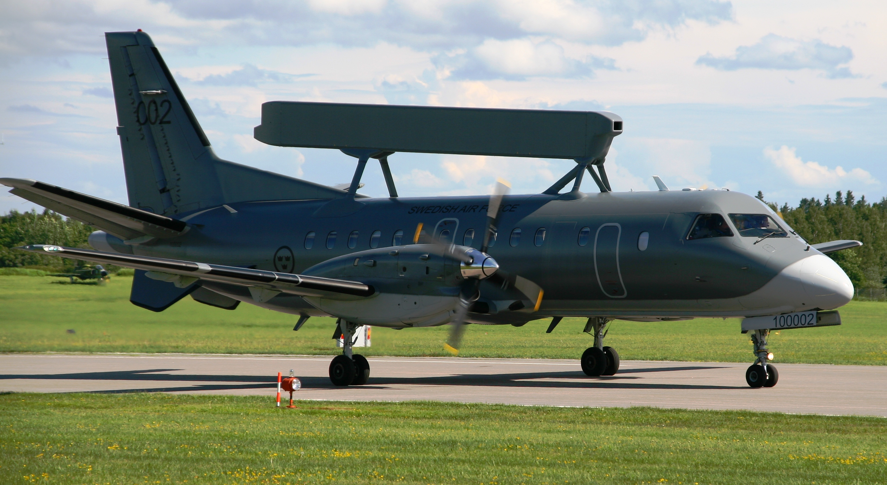 S-100B Argus (Saab 340 AEW&C) Swedish Air Force.